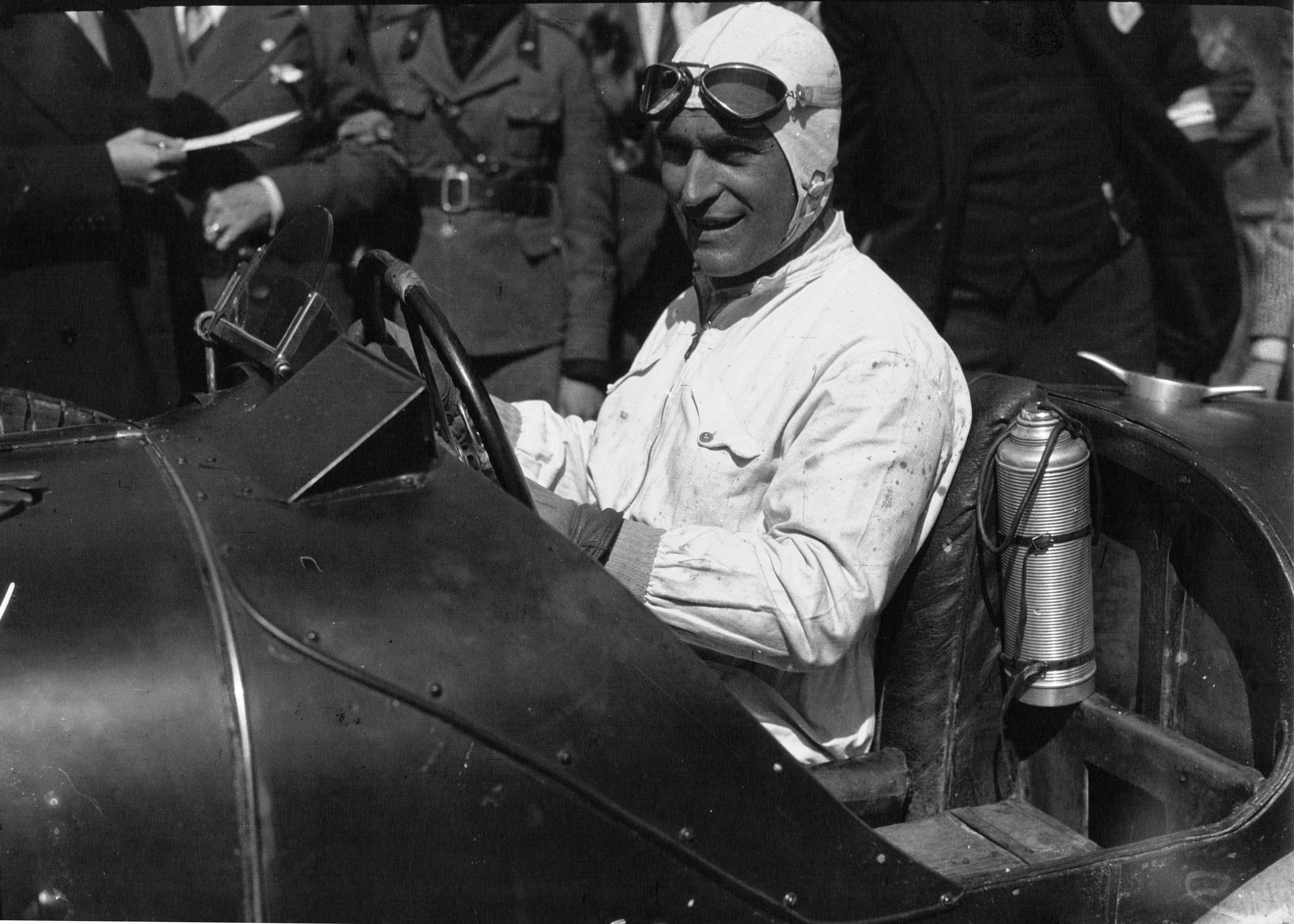 Luigi Fagioli in his Maserati at the 1932 Targa Florio.